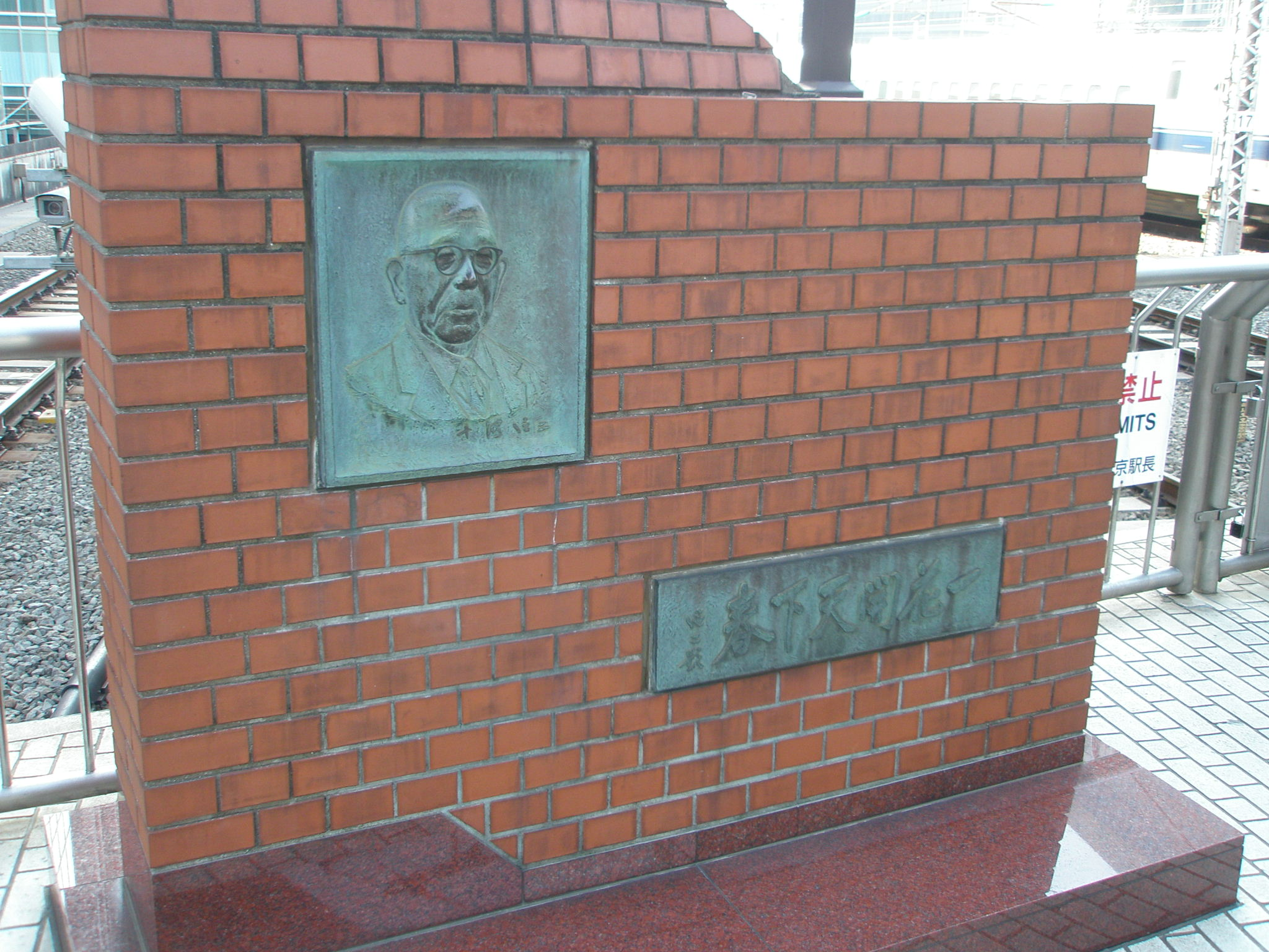 Relief of Shinji Sogō (the fourth president of the Japan National Railways) at the southern tip of 18 & 19th platform, Tokyo Station. This monument was erected in 1973.